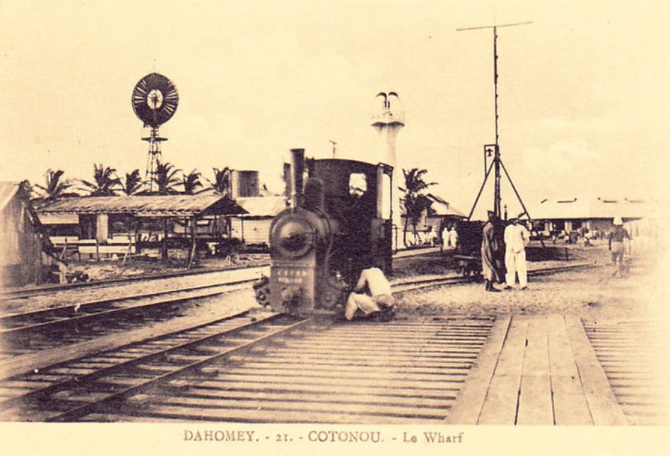 The 0-4-0T steam locomotive of the narrow gauge Cotonou wharf industrial railway in Dahomey (now Benin) in the 1930s. The wharf railway has since been dismantled.